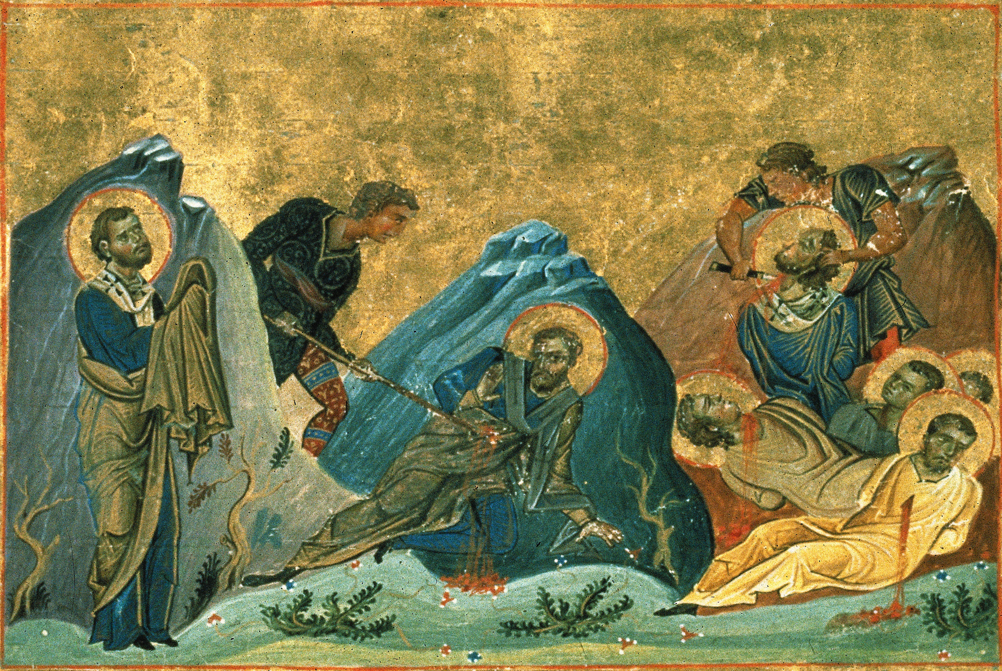 The Apostles Stachius, Amplius, Urban. Constantinople, 985. Miniature Basil II Minology. Vatican library, Rome.